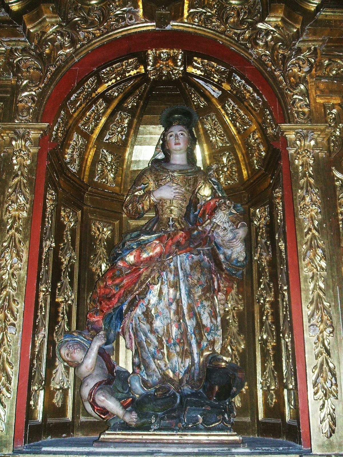 Retablo de Santa Inés, en la iglesia del Real Monasterio de Santa Inés del Valle, Écija, Sevilla, Andalucía, España